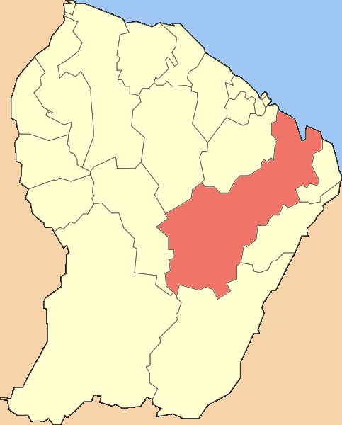 Made map myself.